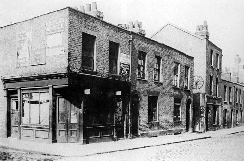 Berner Street and Dutfield's Yard as it was in 1909, 21 years after the murder of Elizabeth Stride. Dutfield's Yard is directly underneath and behind the suspended cart wheel. The International Workingmen's Club is immediately to the right of it (three storey building).